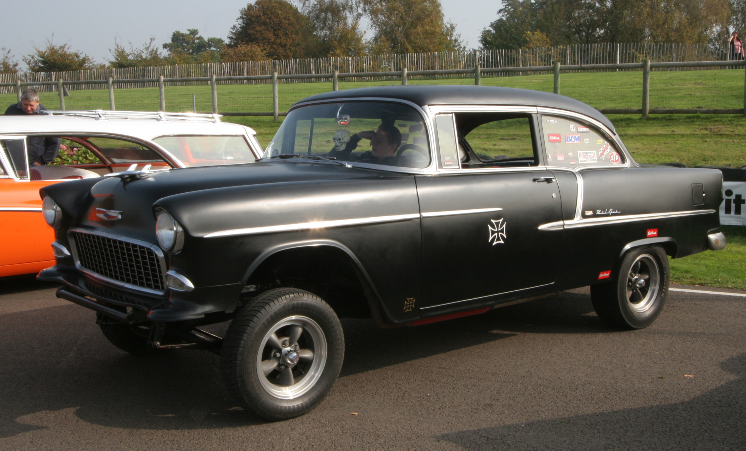 Goodwood Breakfast Club - Chevrolet Bel Air